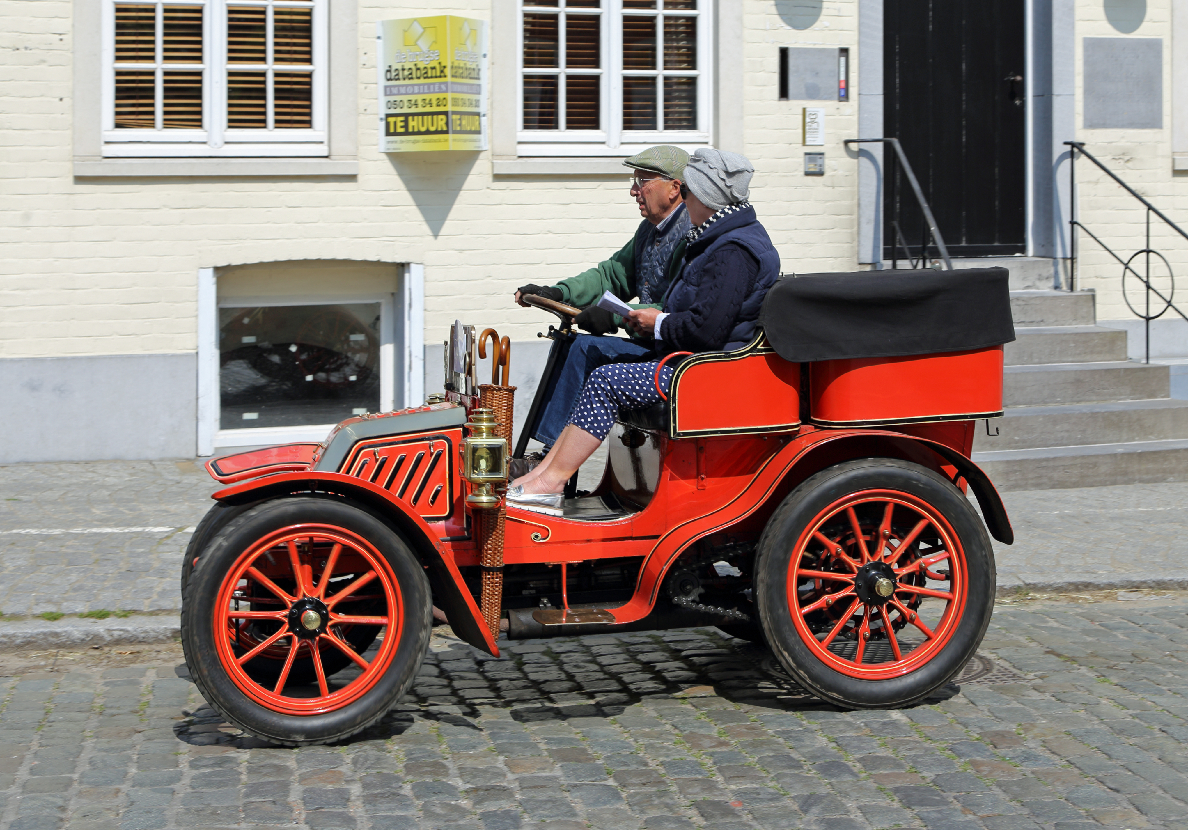 French Gladiator oldtimer car, built 1902, named "KKK Katie", participating in the "35e Randonnee 1900" of the Belgian Royal Veteran Car Club, 28th May 2016